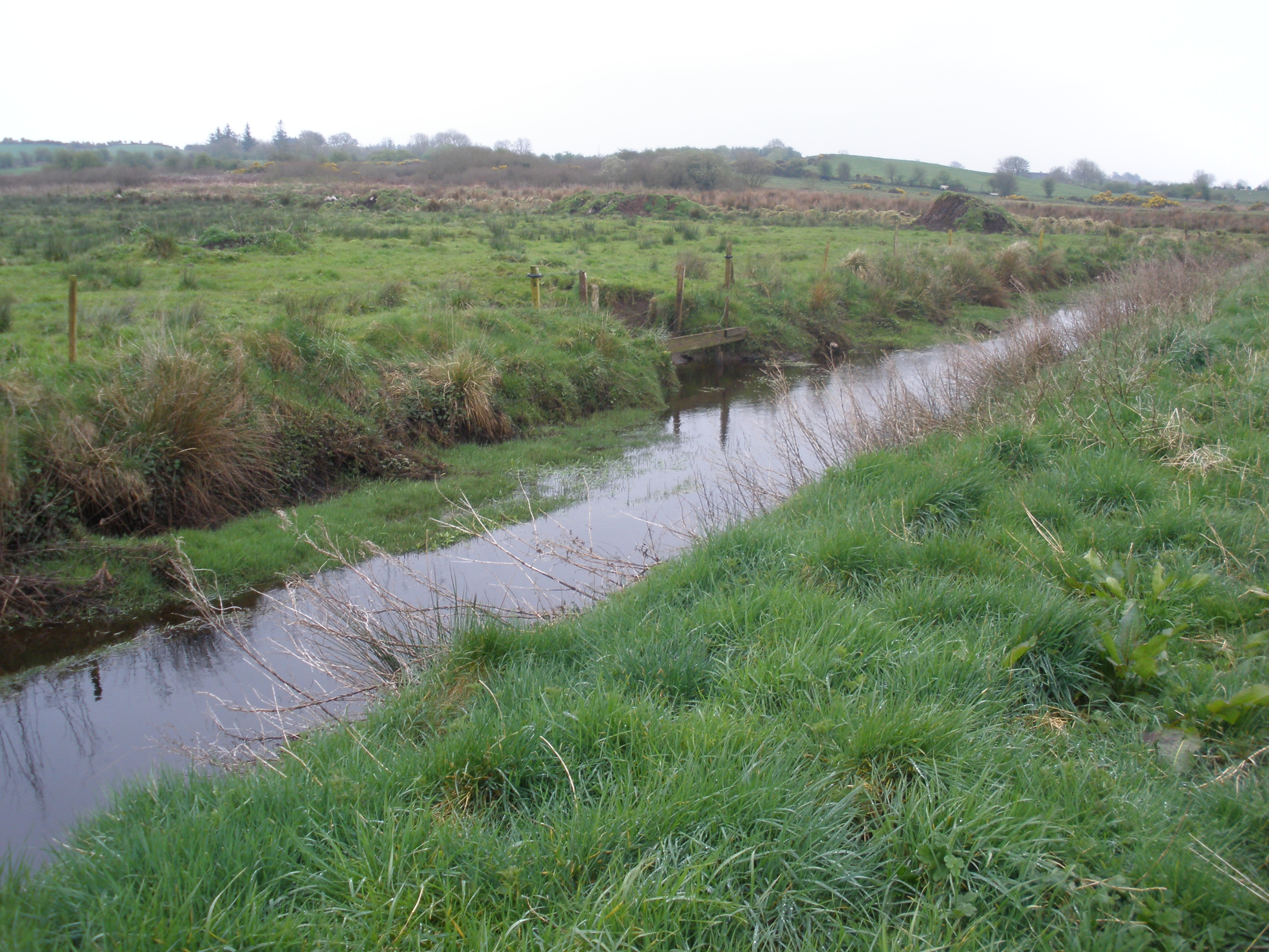 The River Robe in Keebagh, Mayo, near its source, west of Ballyhaunis. The camera faces south, while the river flows southwest out of the picture. See companion view: River Robe, Keebagh, facing upstream.jpg.